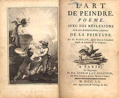 "L'Art de peindre" ("The Art of Painting") by French writer and artist Claude-Henri-Watelet (1718-1786)